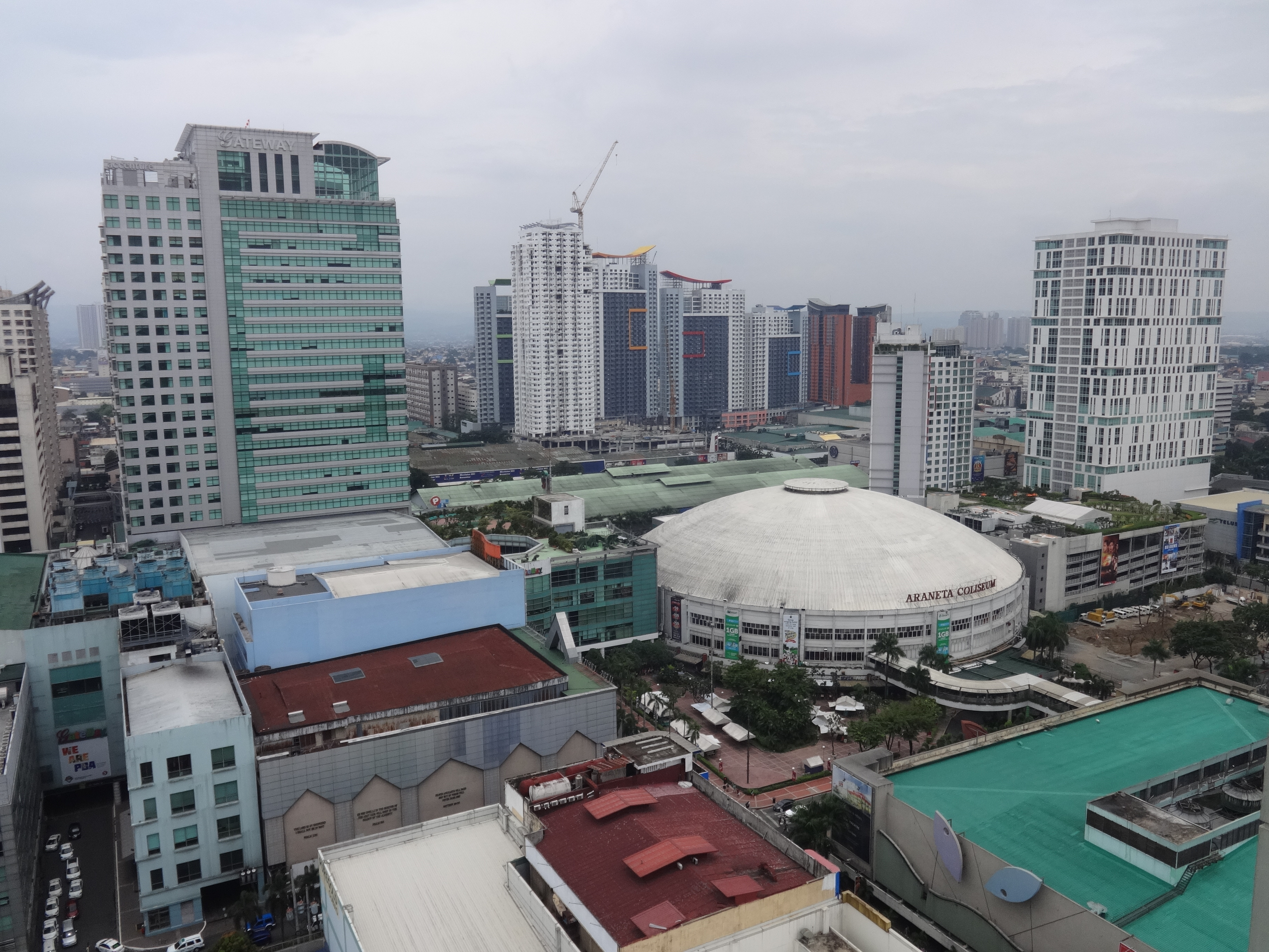 Araneta Center in Cubao, Quezon City. It is one of the main commercial areas in Quezon City where Araneta Coliseum, Alimall, Gateway, farmer's Plaza, Novotel and Manhattan Garden City are located. Araneta Center is bounded by the roads of EDSA (AH26), Aurora Boulevard and P. Tuazon.